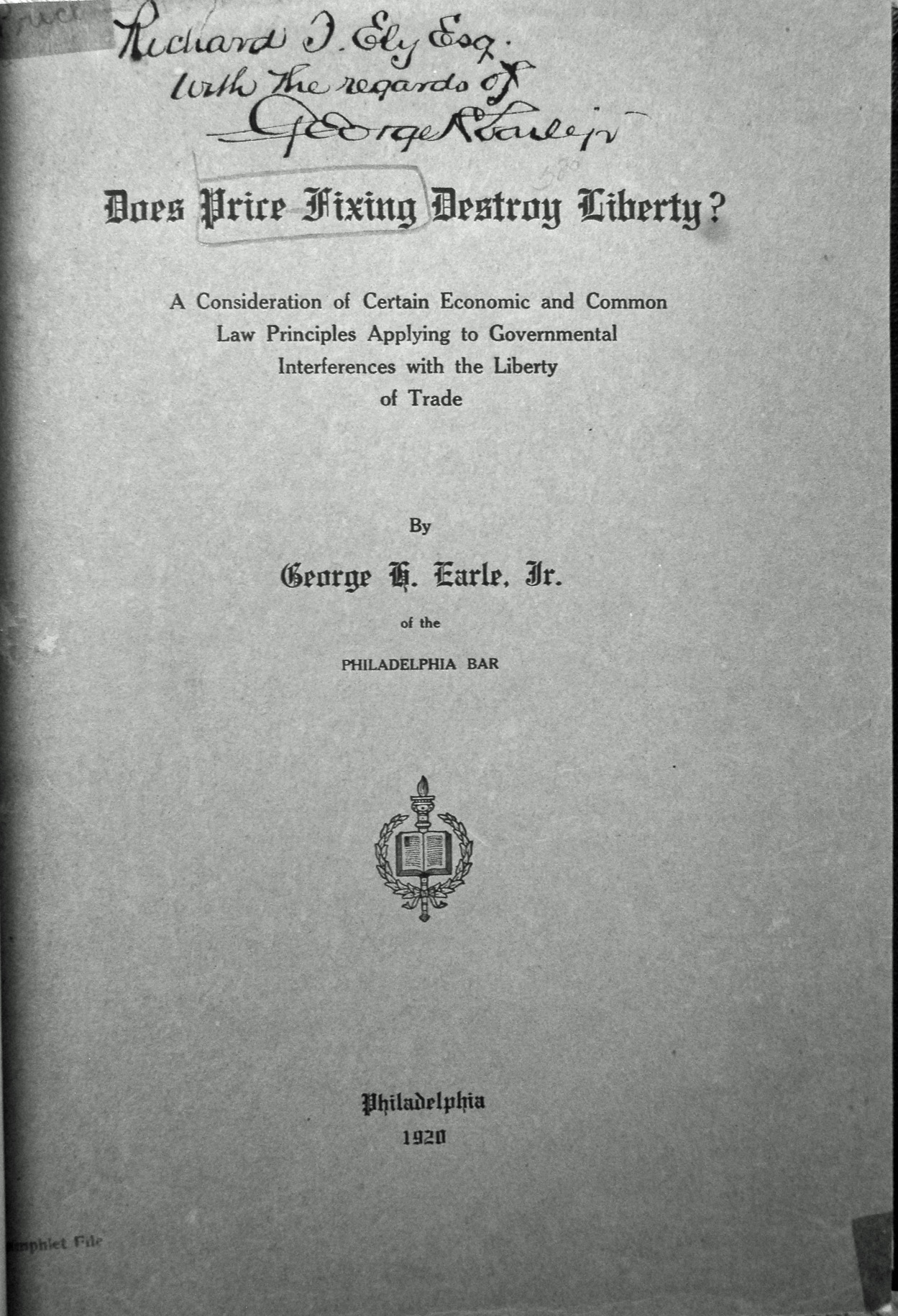 Page i of Does Price Fixing Destroy Liberty? (1920, early version, 162pp.) by George H. Earle, Jr. (Provenance: Richard T. Ely)